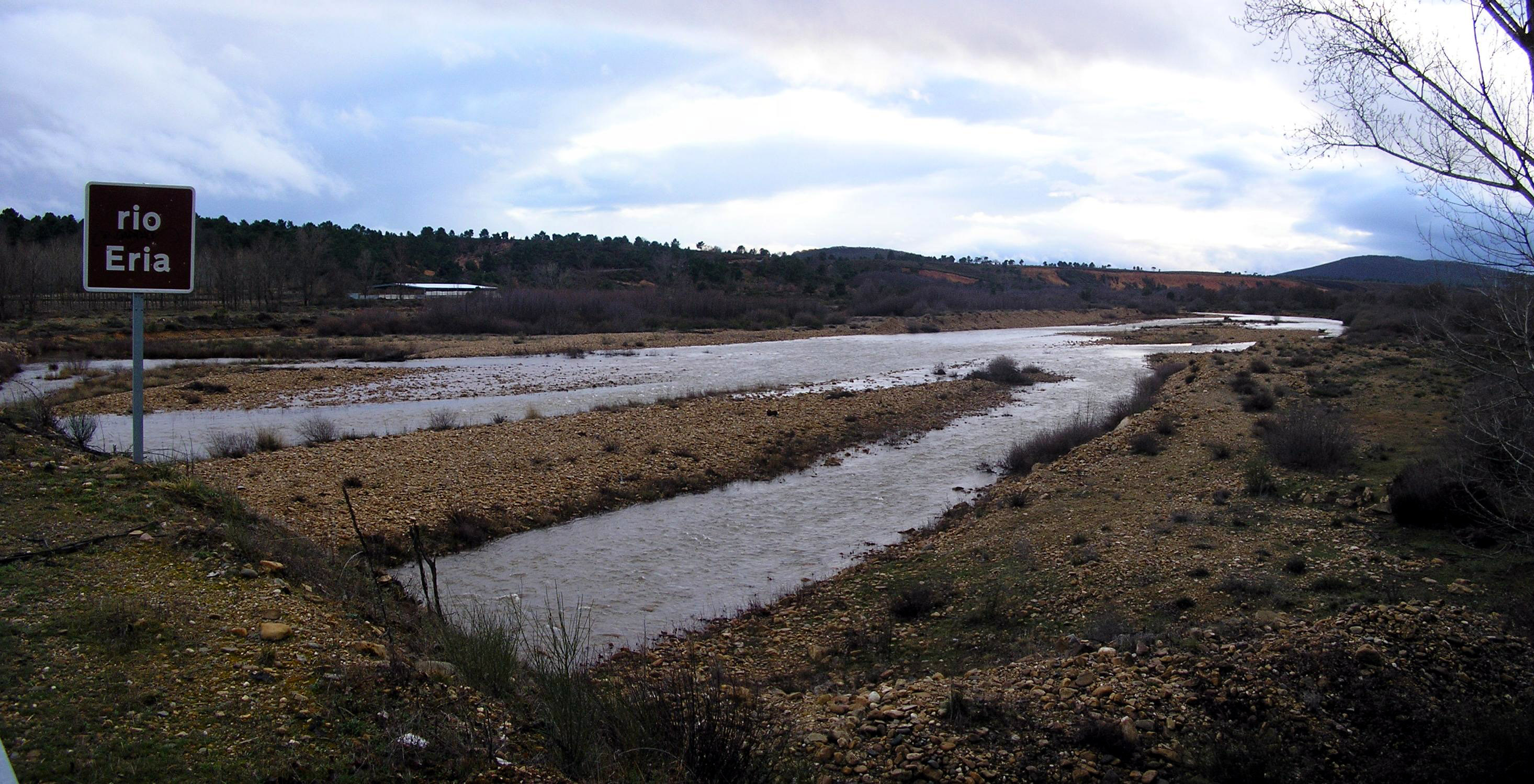 River Eria in the spanish village of Nogarejas, province of León